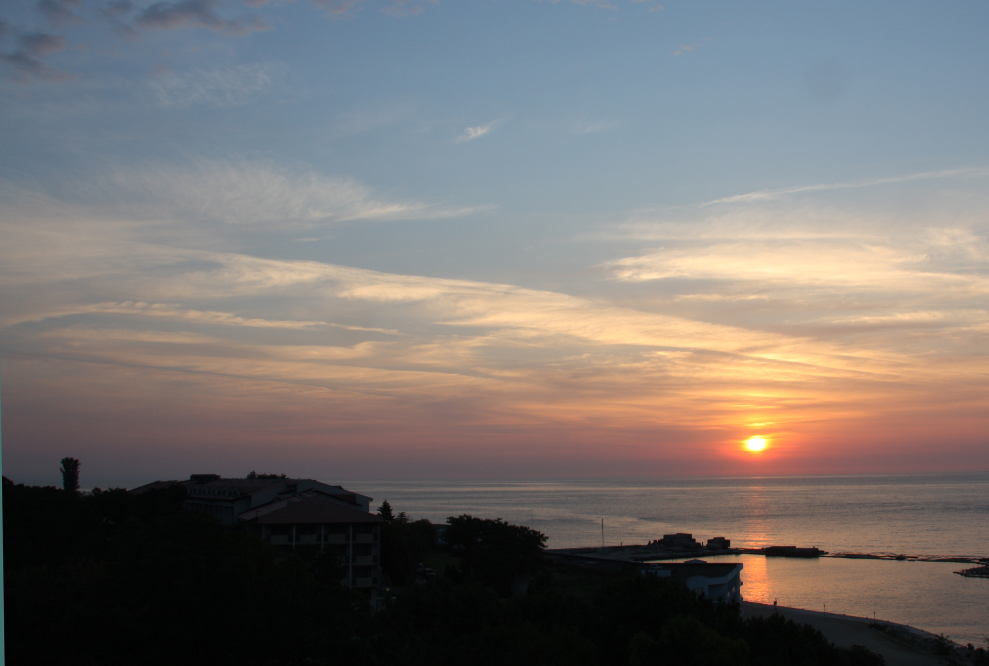 Sunrise over Varna Изгрев над Варна, Св. Константин и Елена